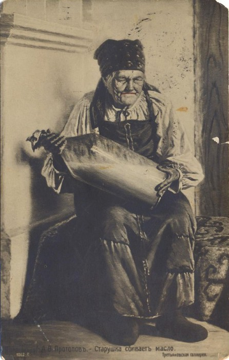 The postcard